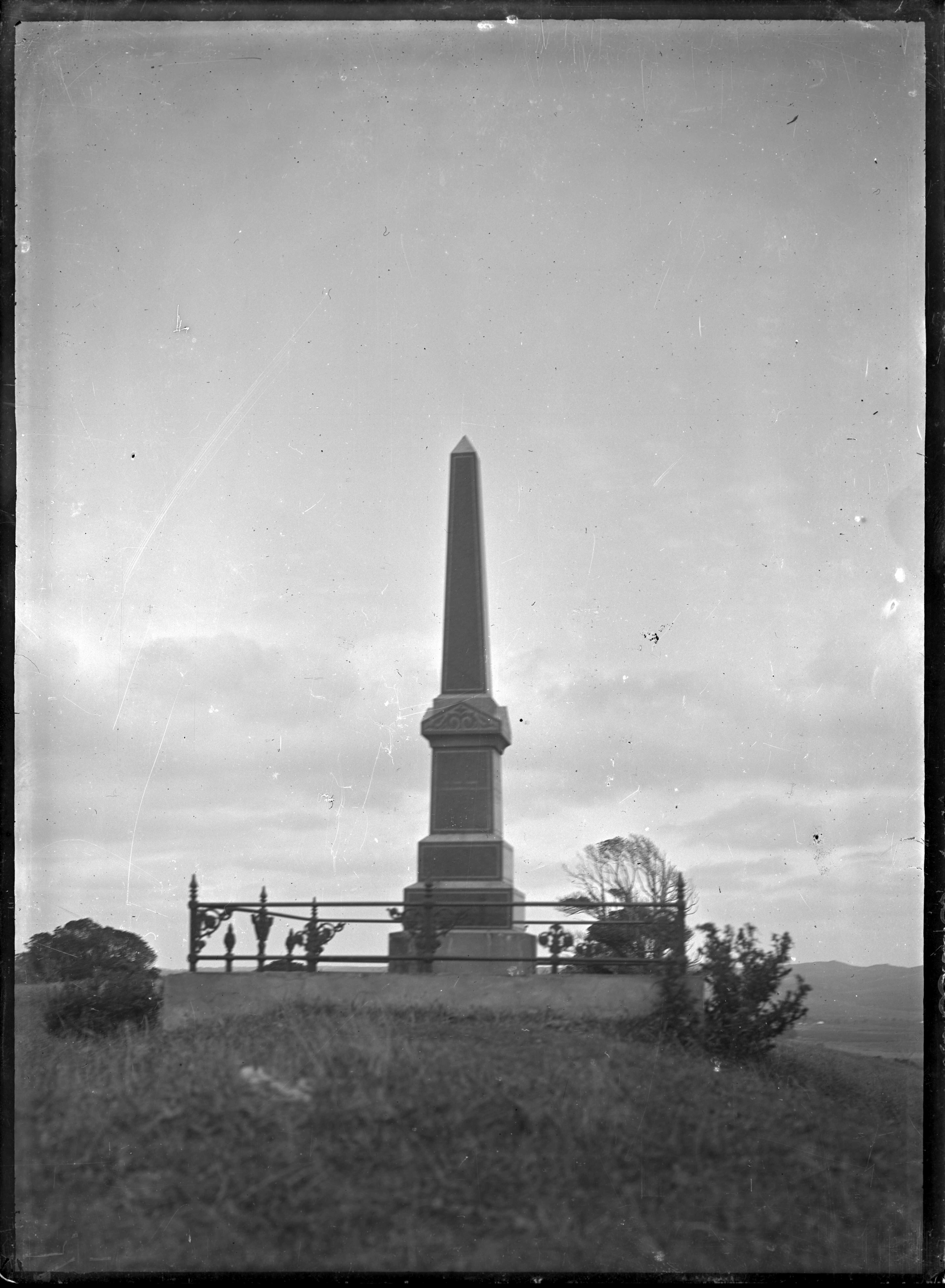 View of the monument in memory of Hone Heke at Kaikohe. Photograph taken by Albert Percy Godber, in 1918.